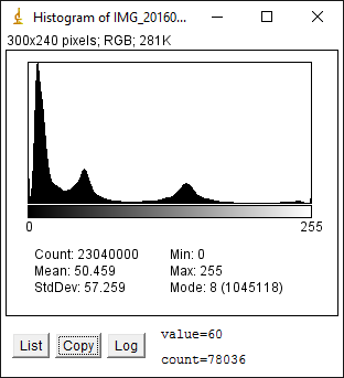 Histograma da imagem original. Fonte: Próprio autor